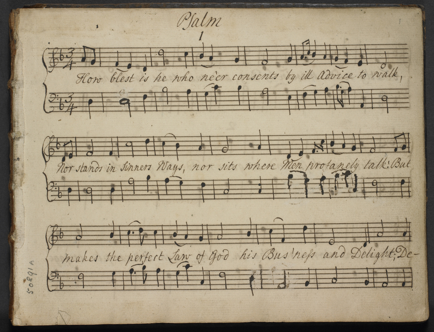 How blest is he who ne'er consents. In the composer's hand.